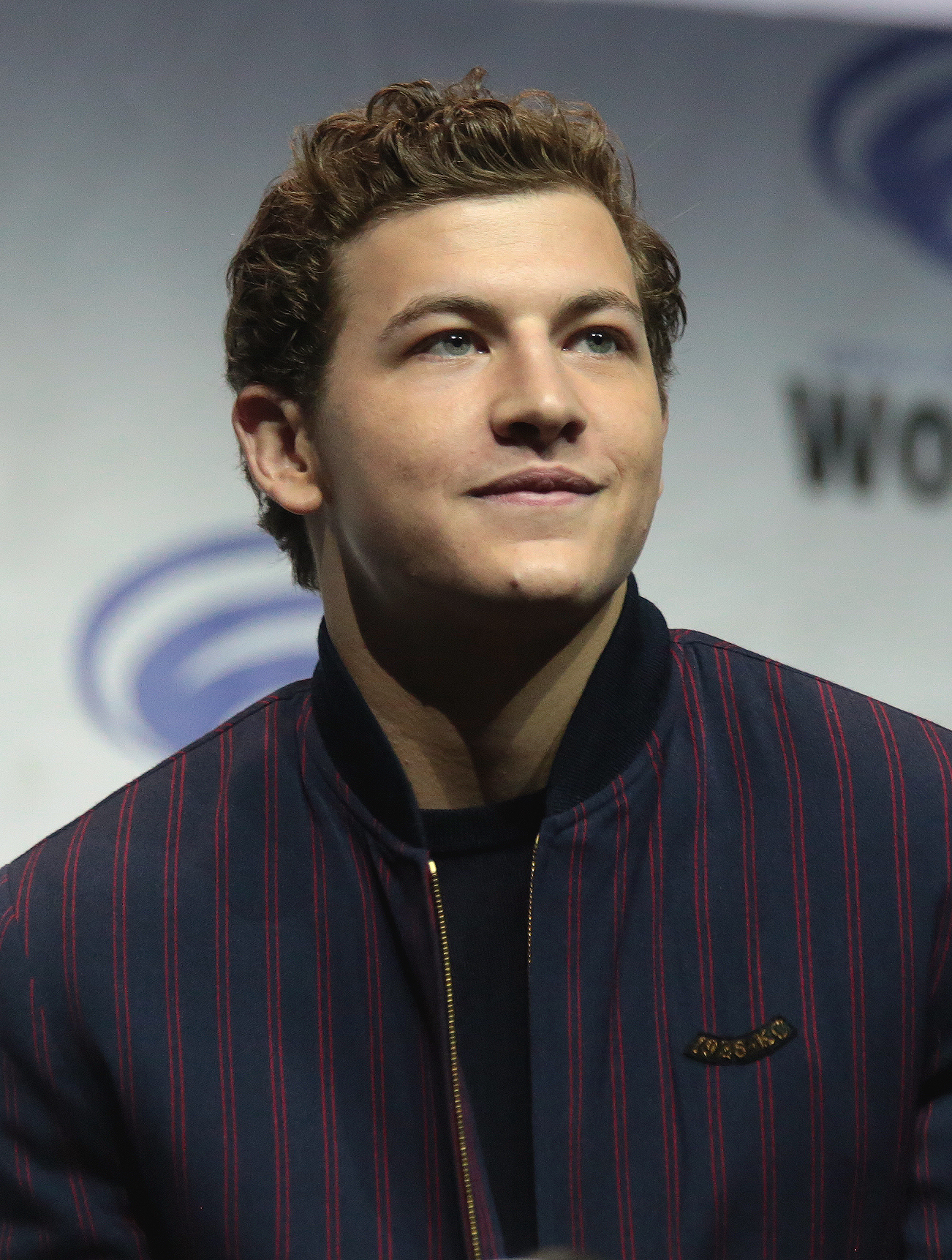 Tye Sheridan speaking at the 2018 WonderCon in Anaheim, California.